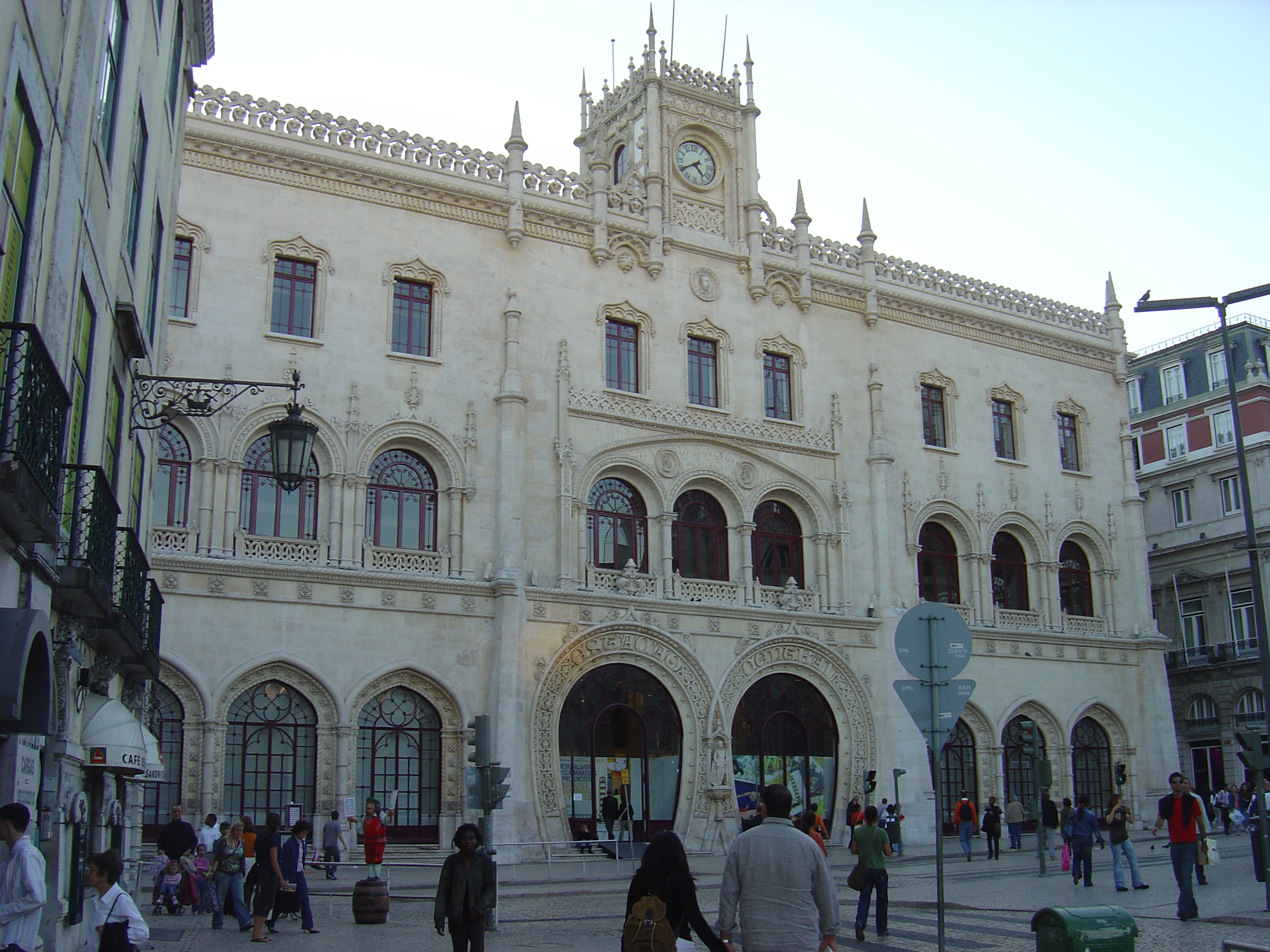 Rossio Train Station, Lisbon, Portugal